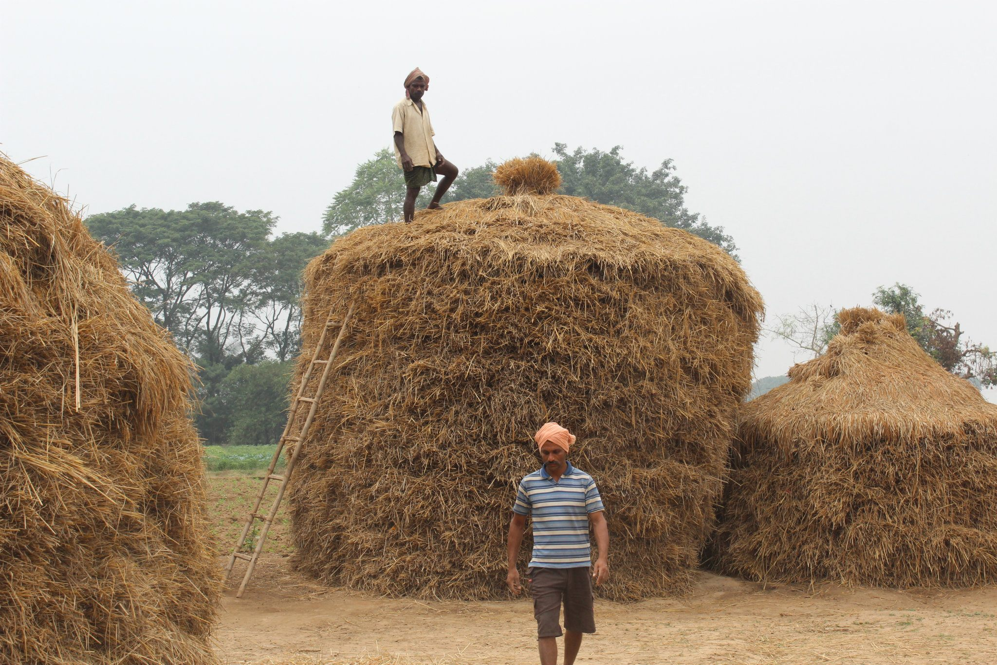 Two East-Indian men gather hay stacks for feeding cattle at a later point in time.